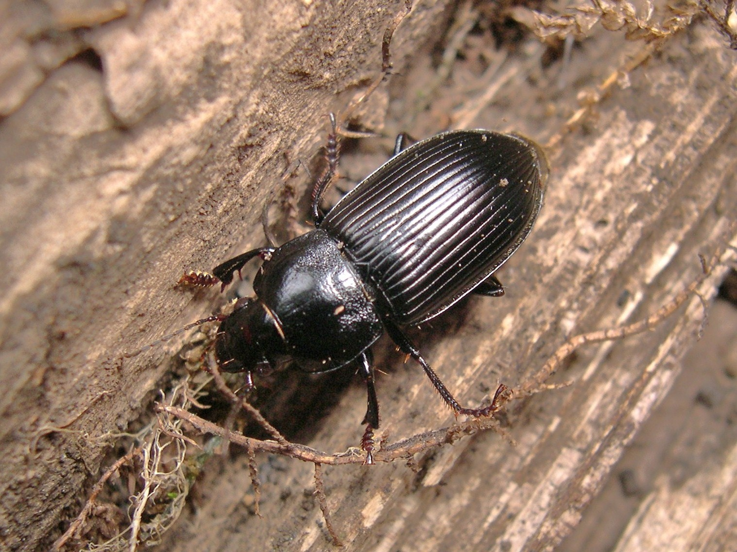 Anisodactylus signatus (Panzer 1796) , male, 12.6mm long. Loc.: Yokohama, Japan.